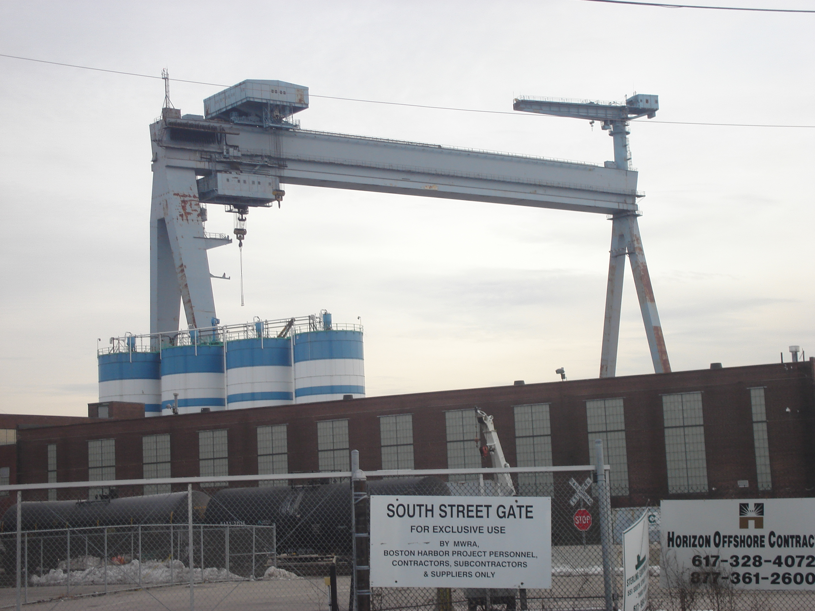 Goliath shipbuilding crane located in Quincy, Massachusetts, United States. The 100 m (328 ft) crane erected by General Dynamics is scheduled for relocation in 2008.